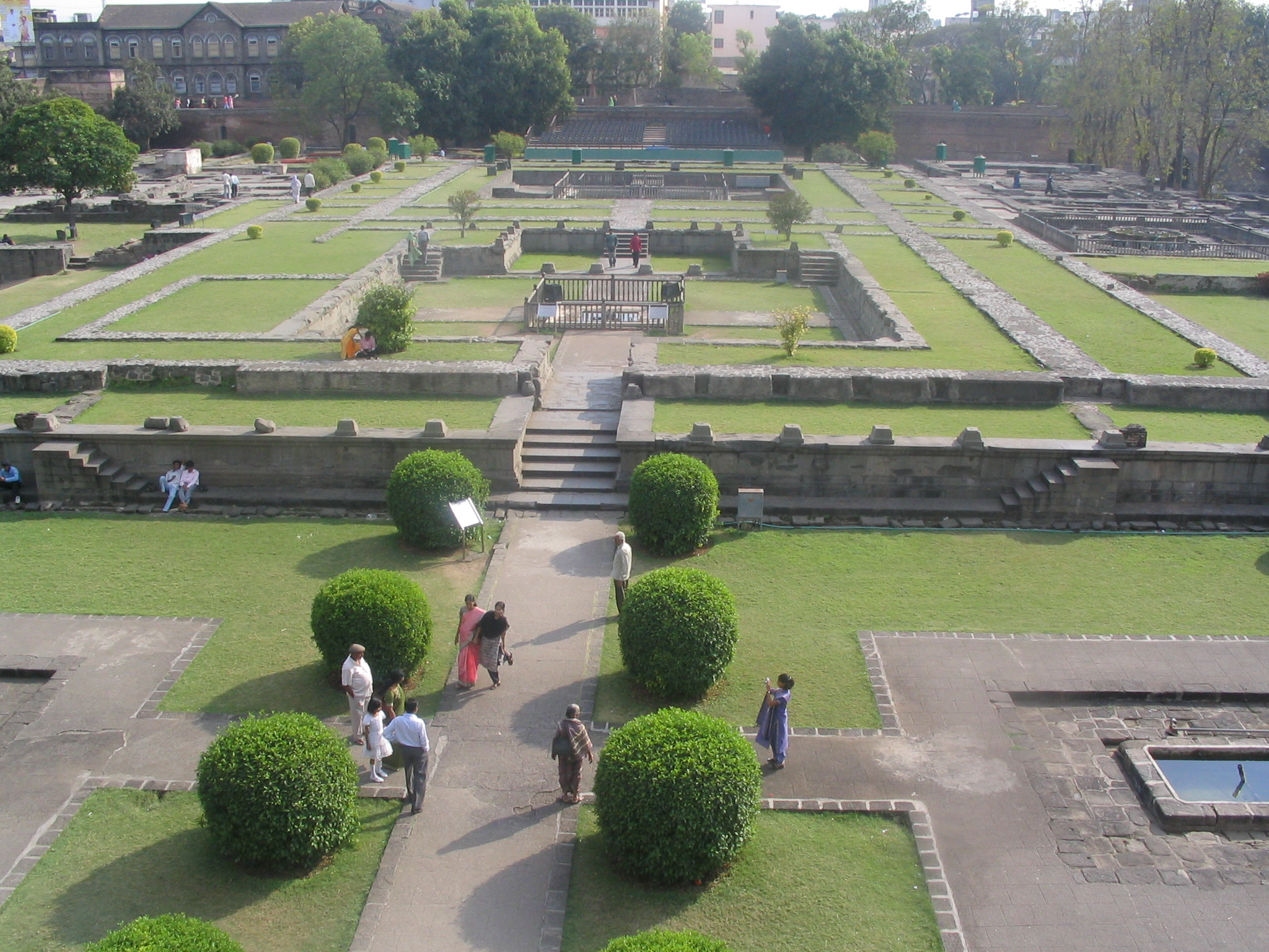 Shaniwaar Wada fort in Pune